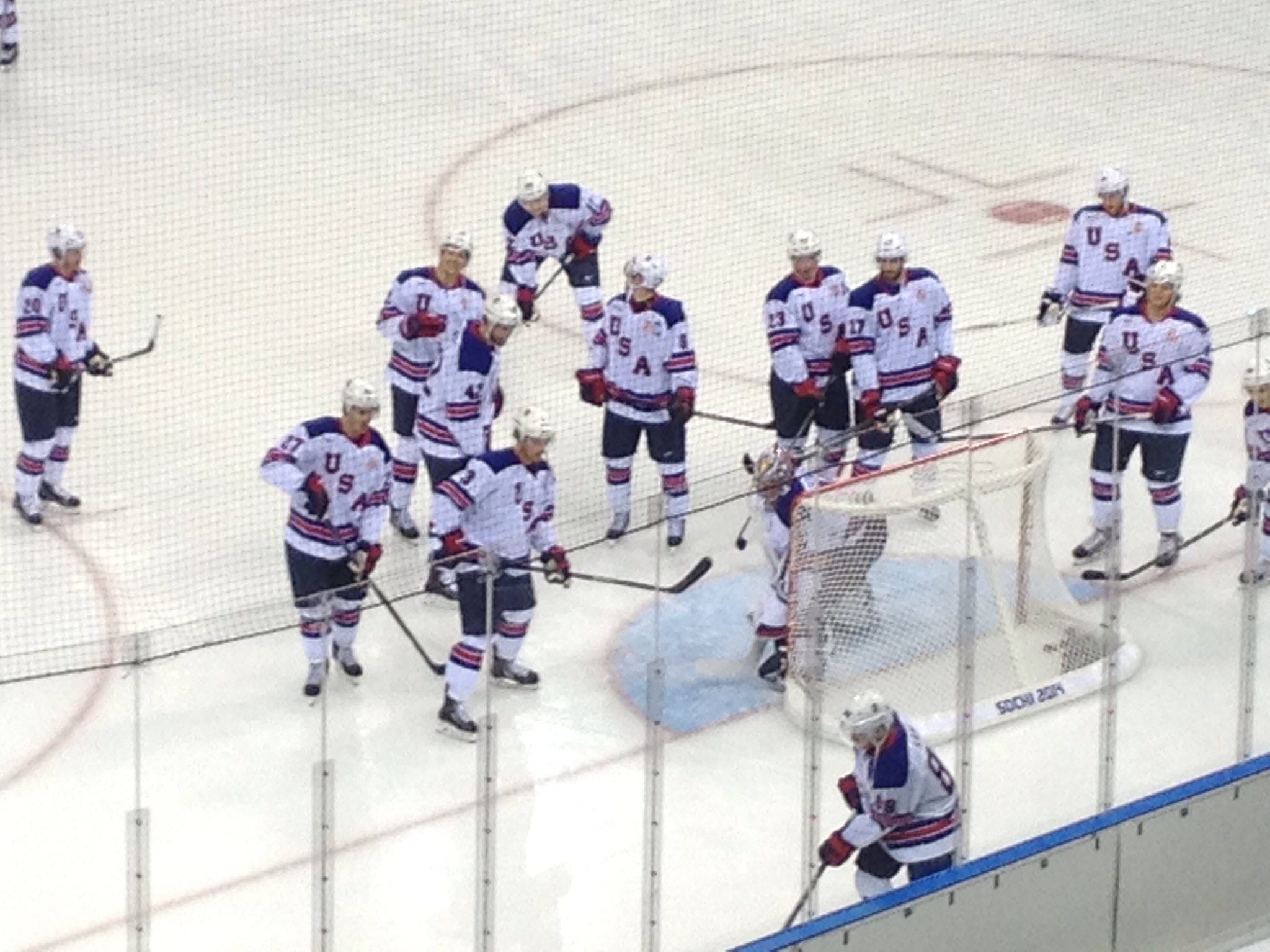 Team USA at Sochi 2014 photo by Jonathon Jarkin